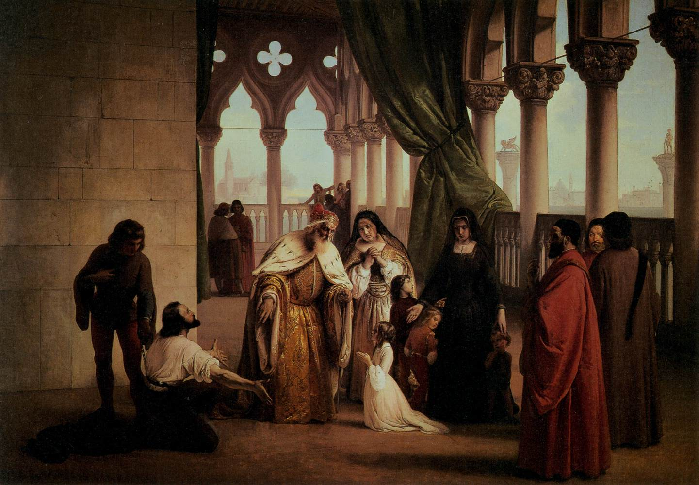 Francesco Foscari, Doge of Venice (c. 1372-1457) banishing his son Jacopo on the charge of treasonable correspondence while in exile; subject of Bryon's poetic drama The Two Foscari